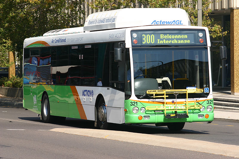 BUS 321 Scania L94UB in Civic